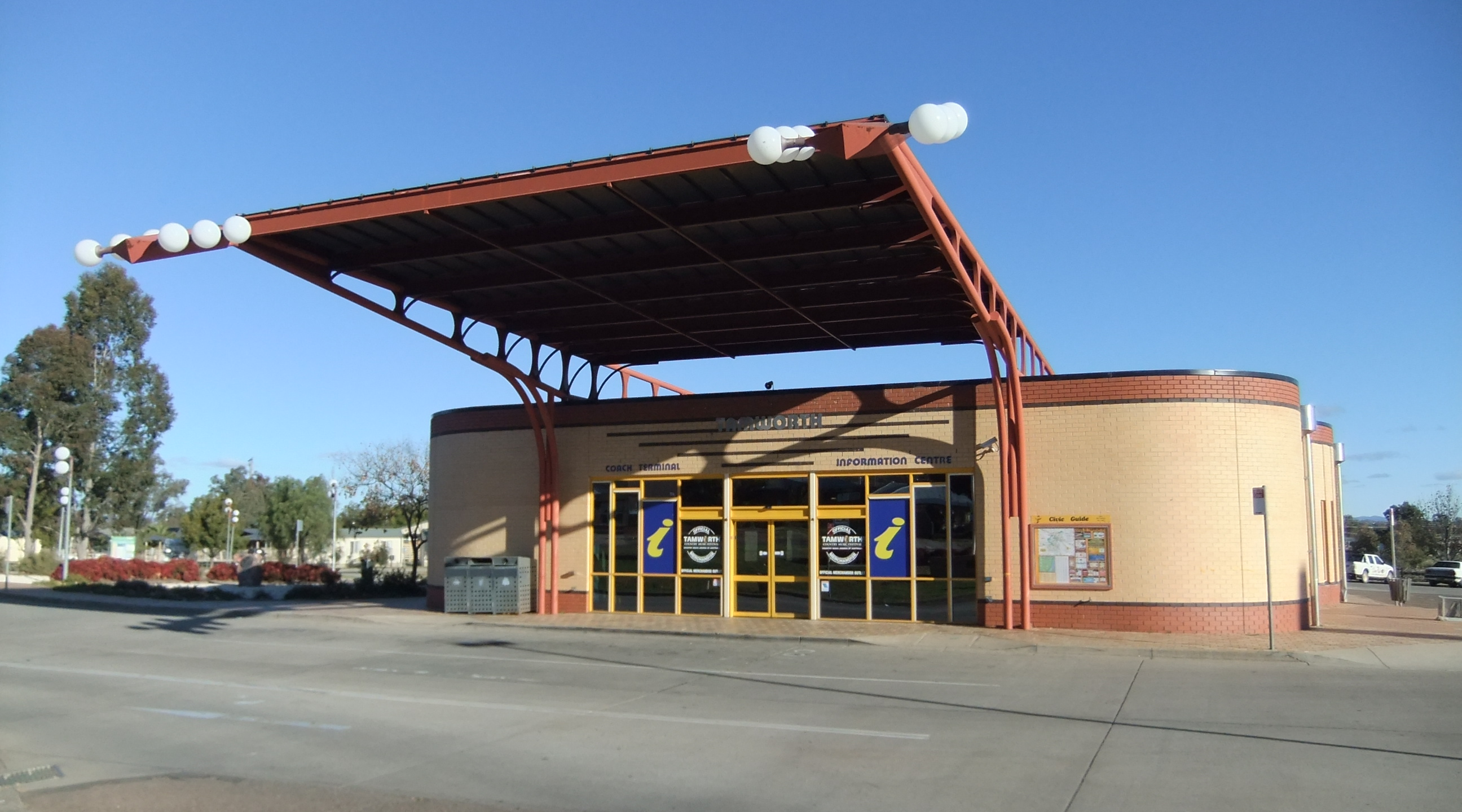 The Tamworth Visitors Information Centre - Taken on the Saturday, 9th July 2011 at 3:20pm.